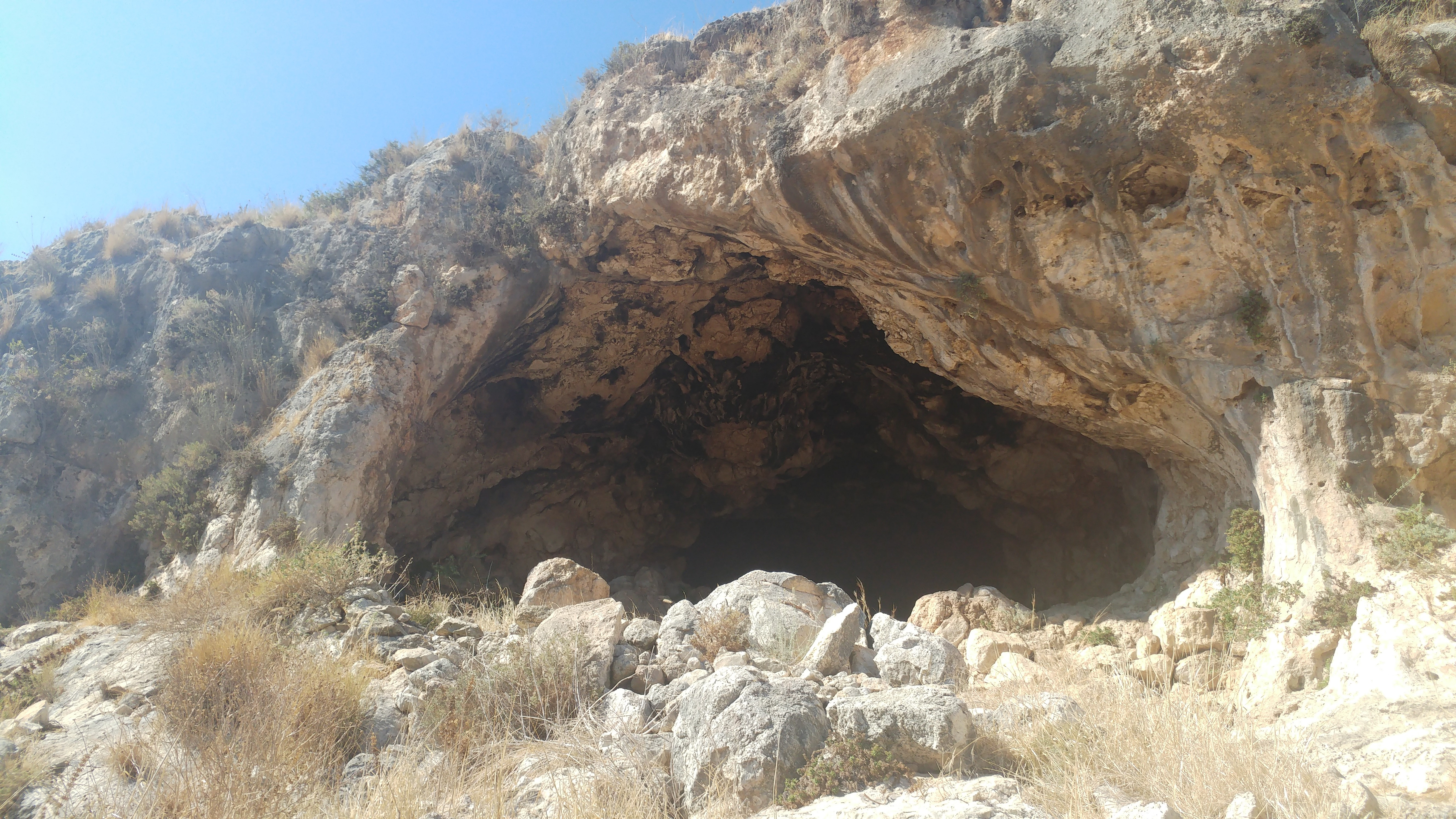 Nahal Oren prehistoric cave.